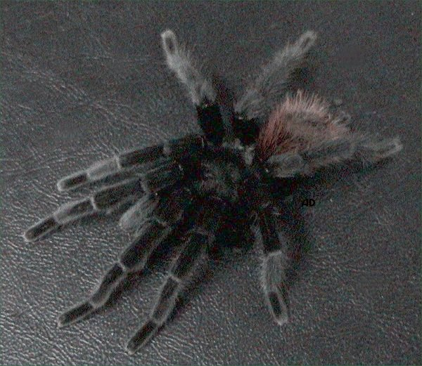 Photographer: LA Dawson Mexican Red Rump Tarantula, Brachypelma vagans